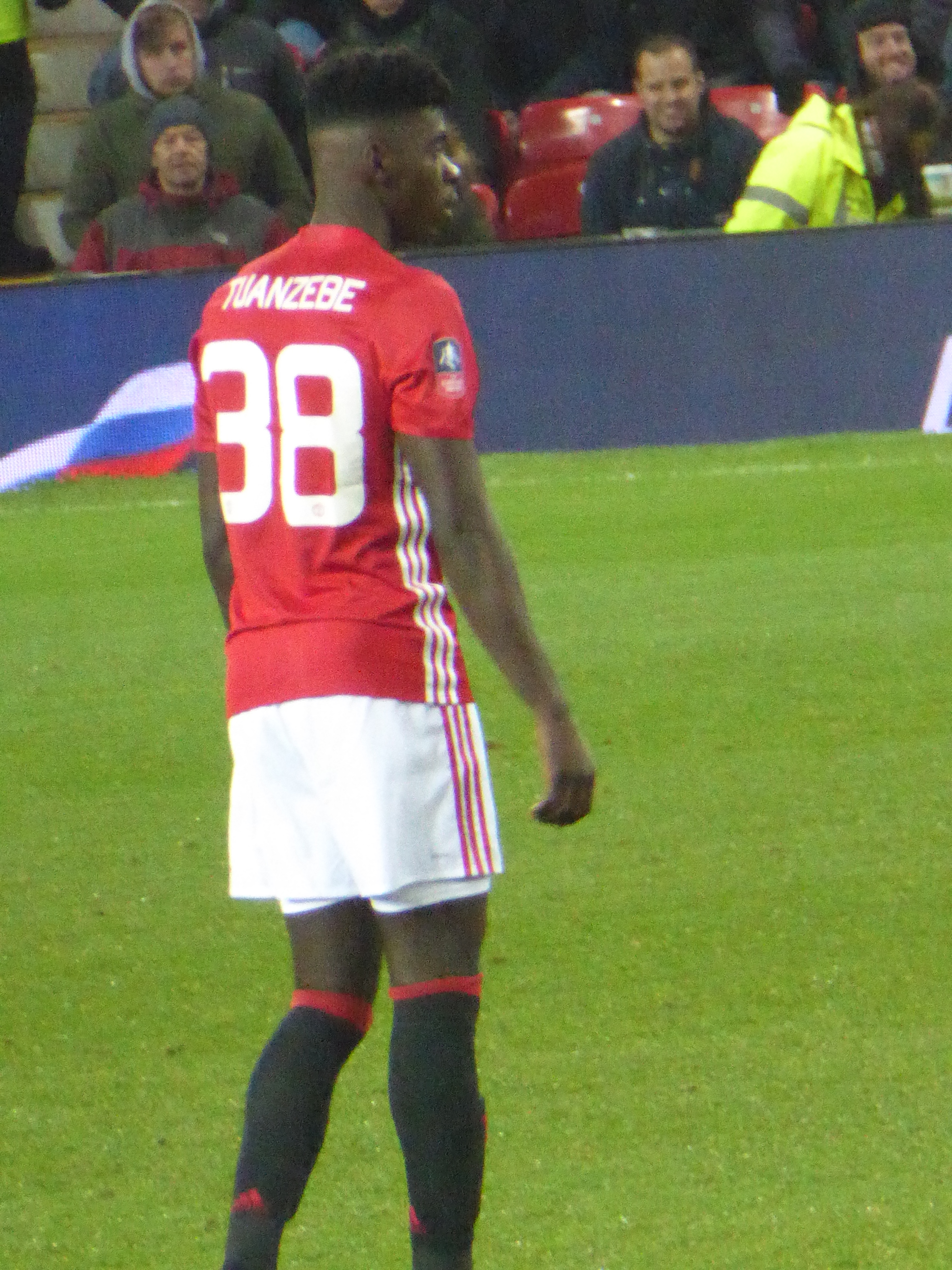 Manchester United v Wigan Athletic (4-0), FA Cup, Old Trafford, Manchester, Greater Manchester, England, 29 January 2017